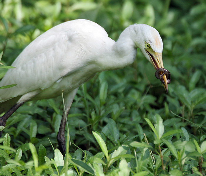 Eastern Cattle Egret Bubulcus coromandus in Kolkata, West Bengal, India.